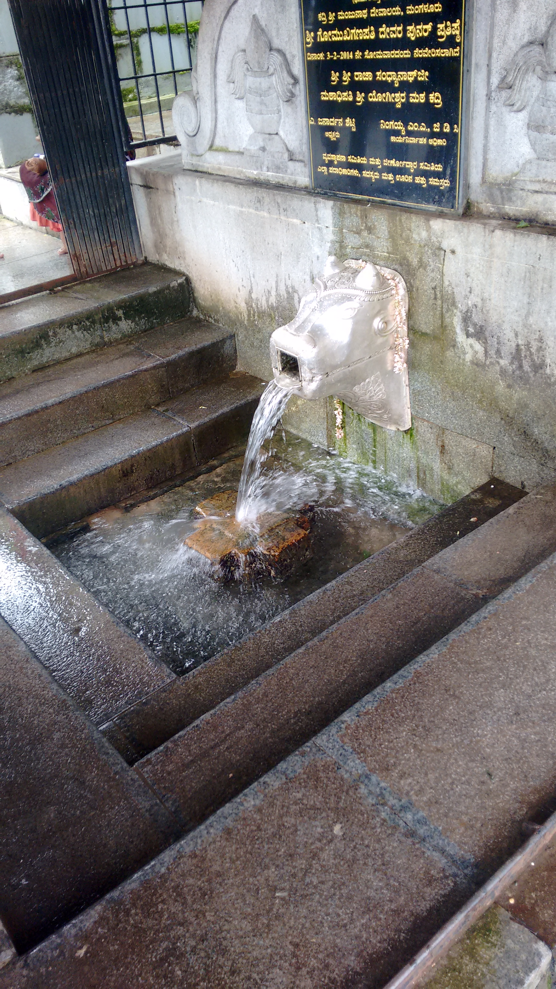 Mangala Devi Temple